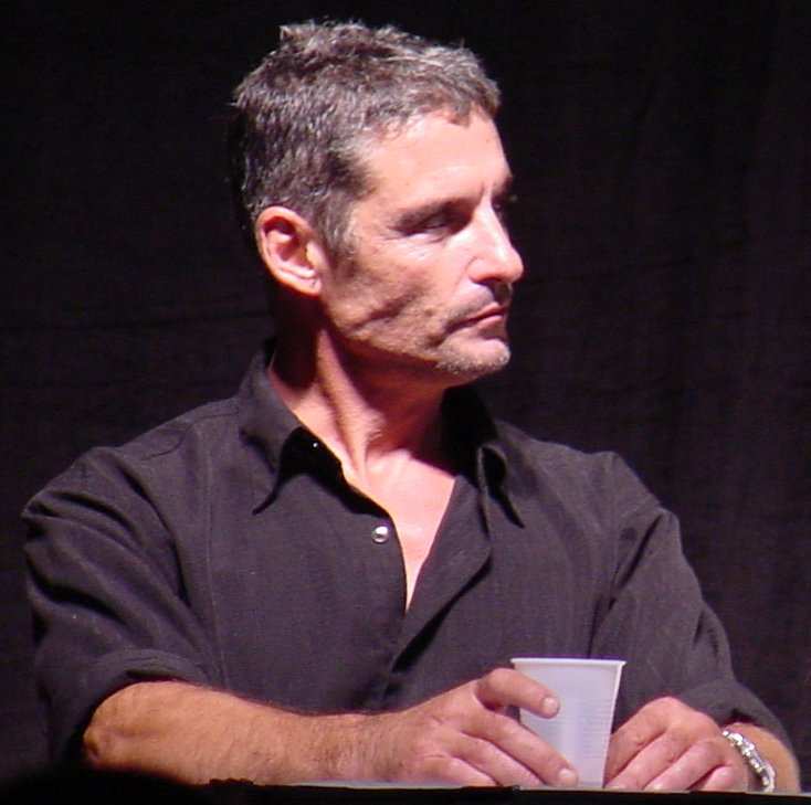 South African American actor Cliff Simon (cast as Ba'al on the science fiction television program Stargate SG-1) talking about his time on the show at Dragon Con 2006.